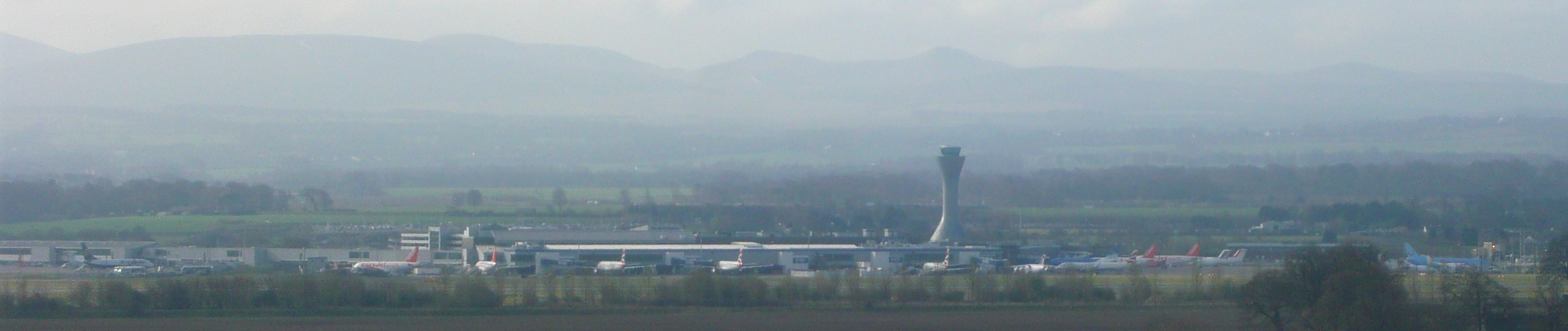 Edinburgh Airport with numerous grounded planes due to the closure of UK airspace after Icelandic volcano eruption.